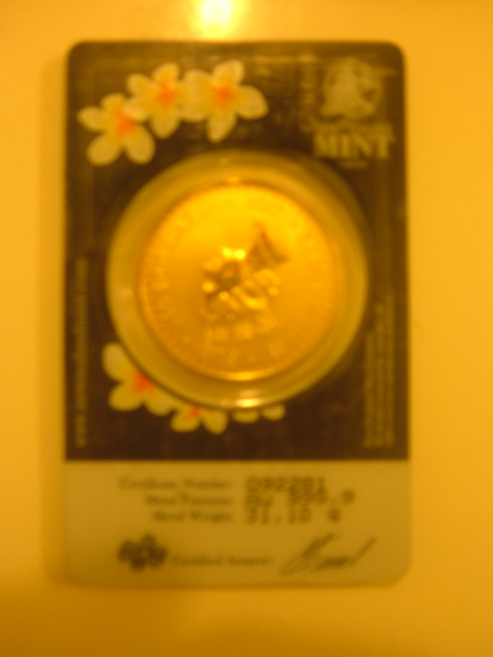 pic of back of my 1oz gold pacific sovereign with my crappy low-megapixel camera...feel free to replace